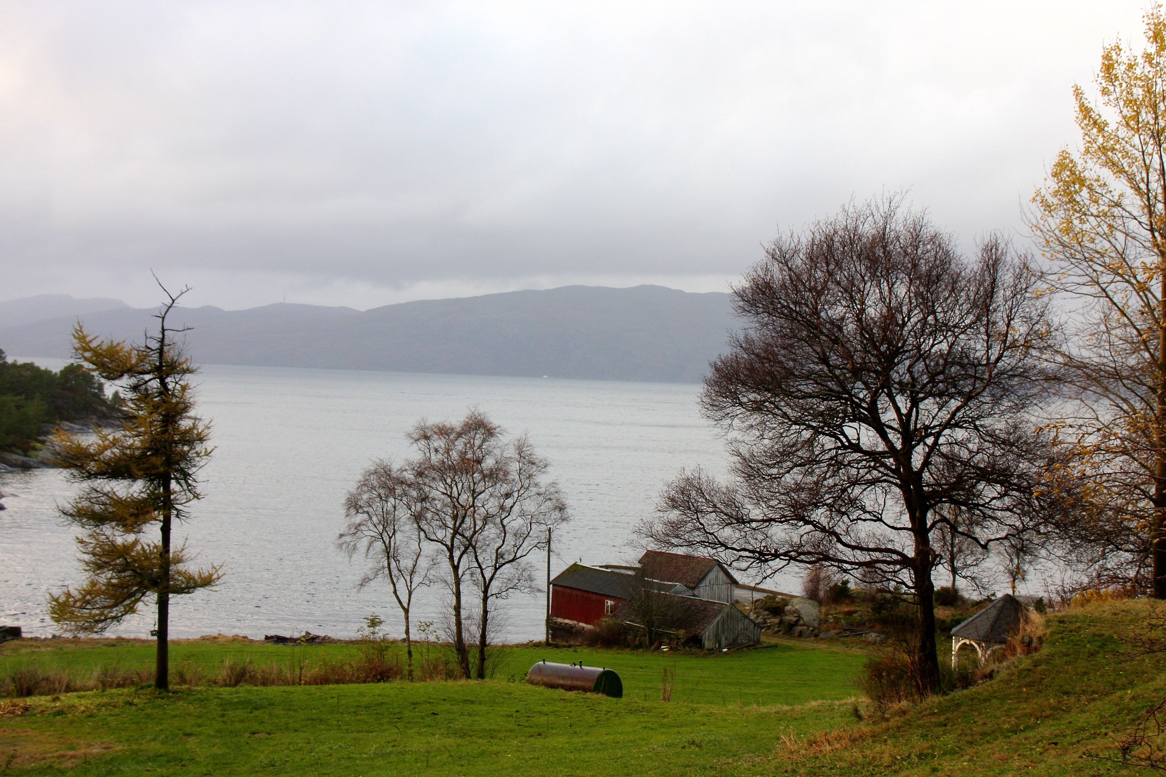 Gulen municipality, Norway.